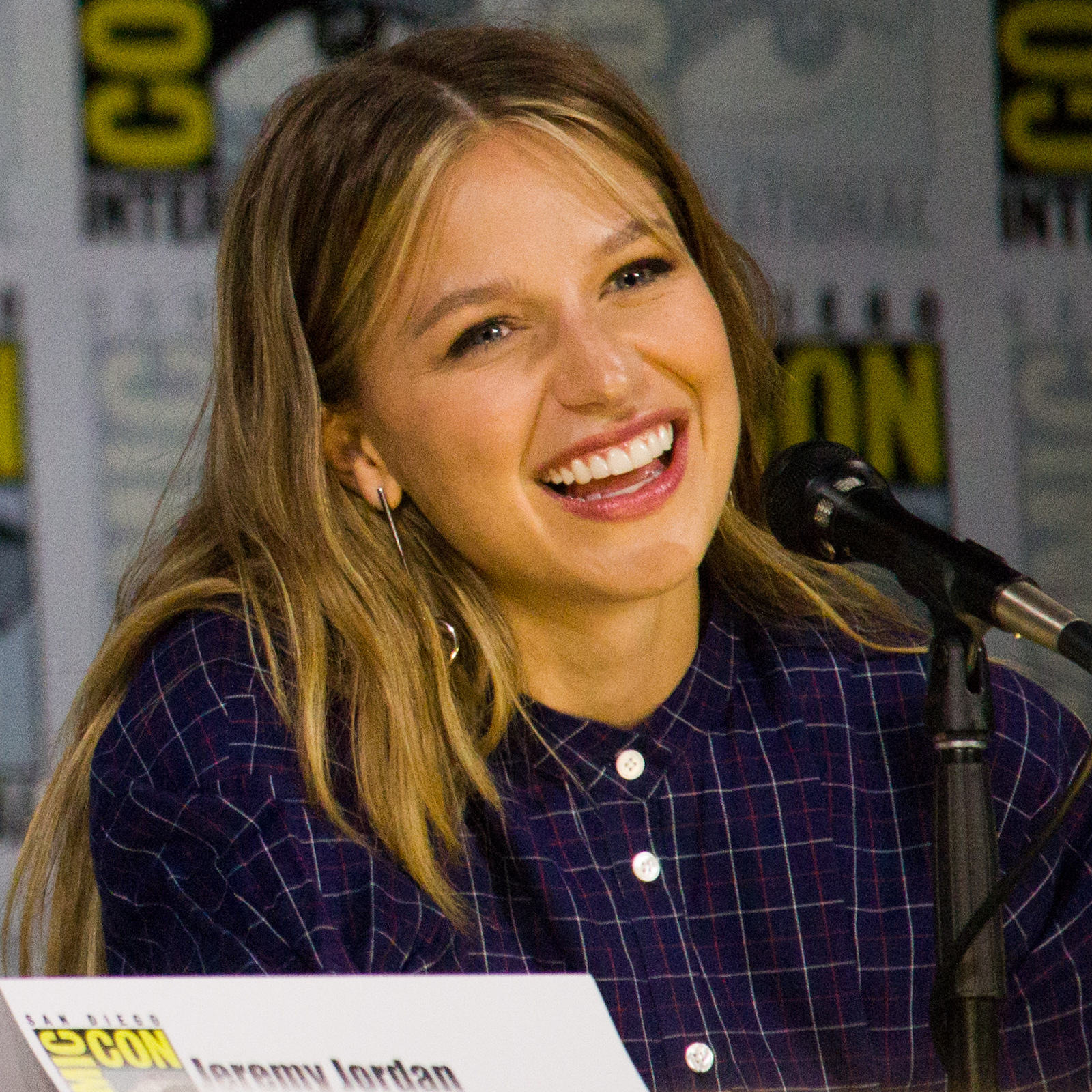 Supergirl: Cast & creators panel at SDCC 2017